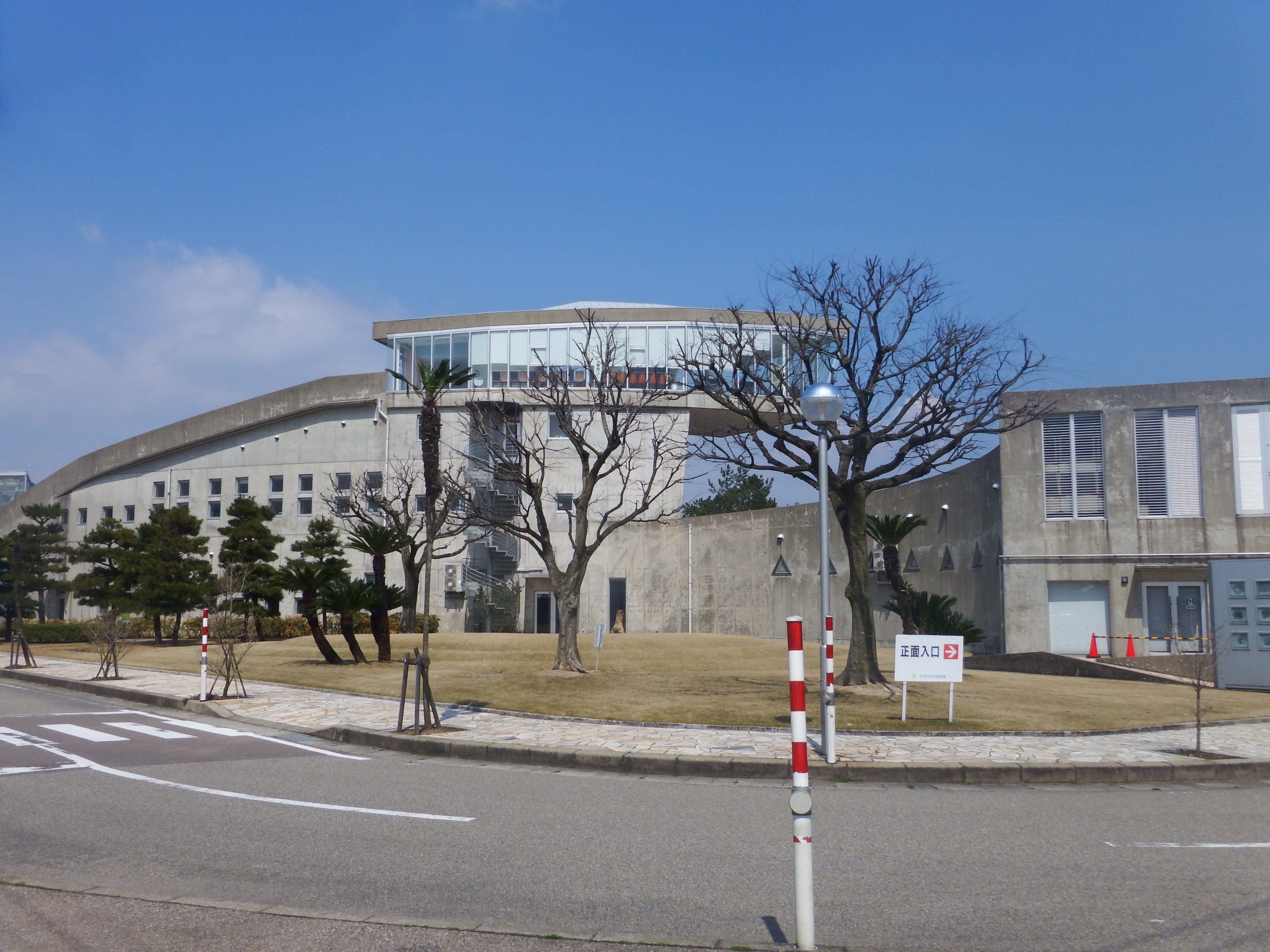 Outside of himi seaside botanical garden.(Himicity,Toyama prefecture in Japan.)